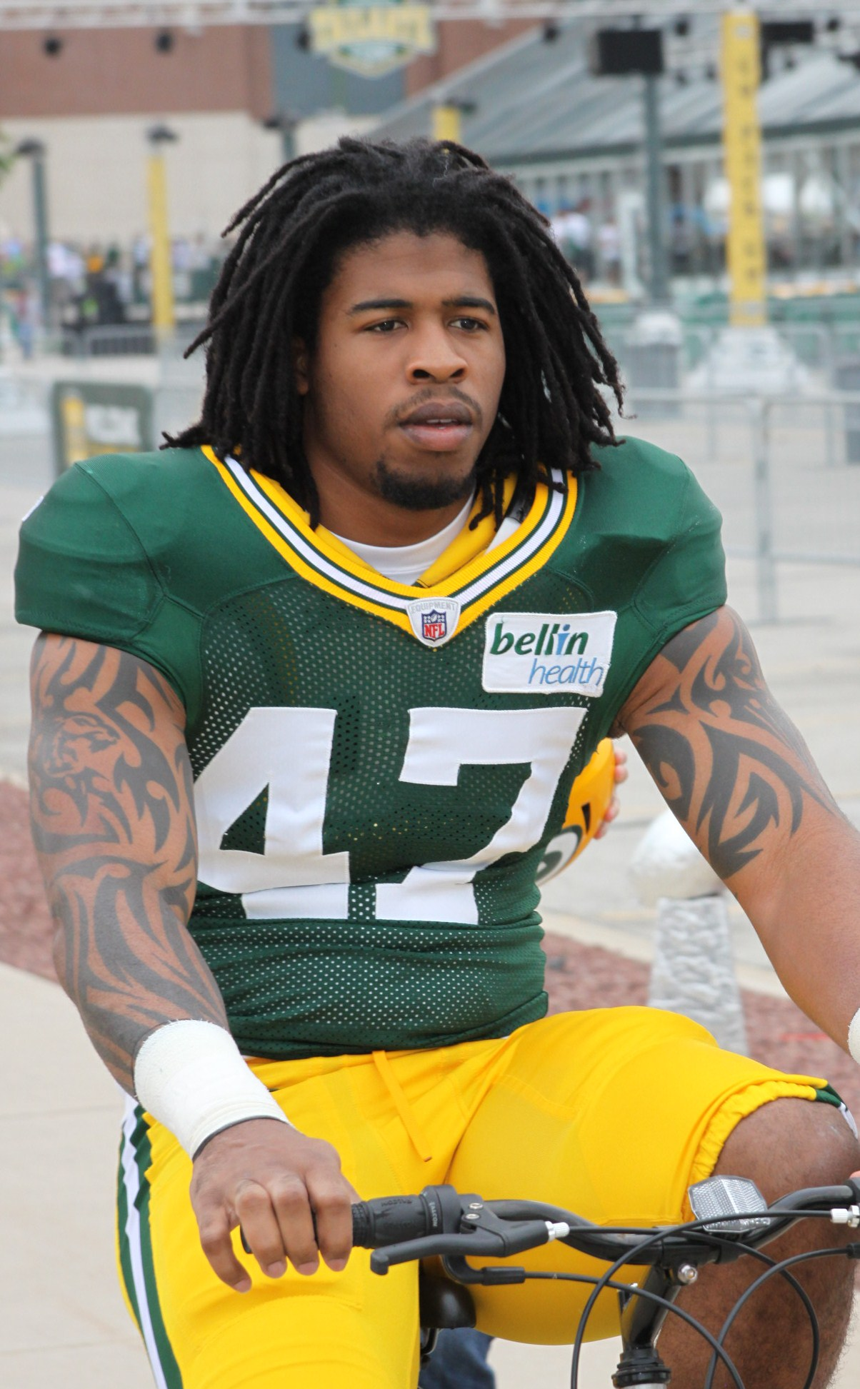 Green Bay Packer linebacker Jamari Lattimore riding a fan's bicycle at training camp, Green Bay Wisconsin, August 5, 2011